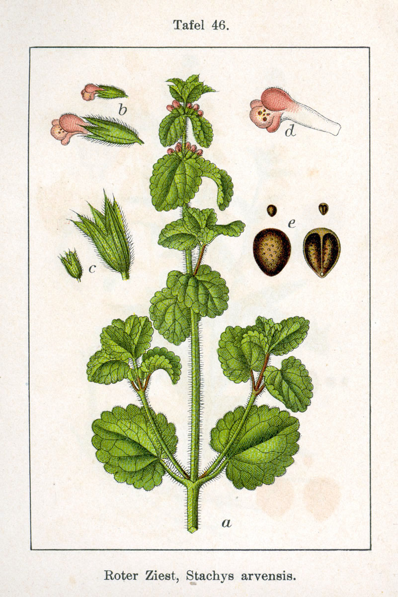 Stachys arvensis (L.) L. Original Description Roter Ziest, Stachys arvensis